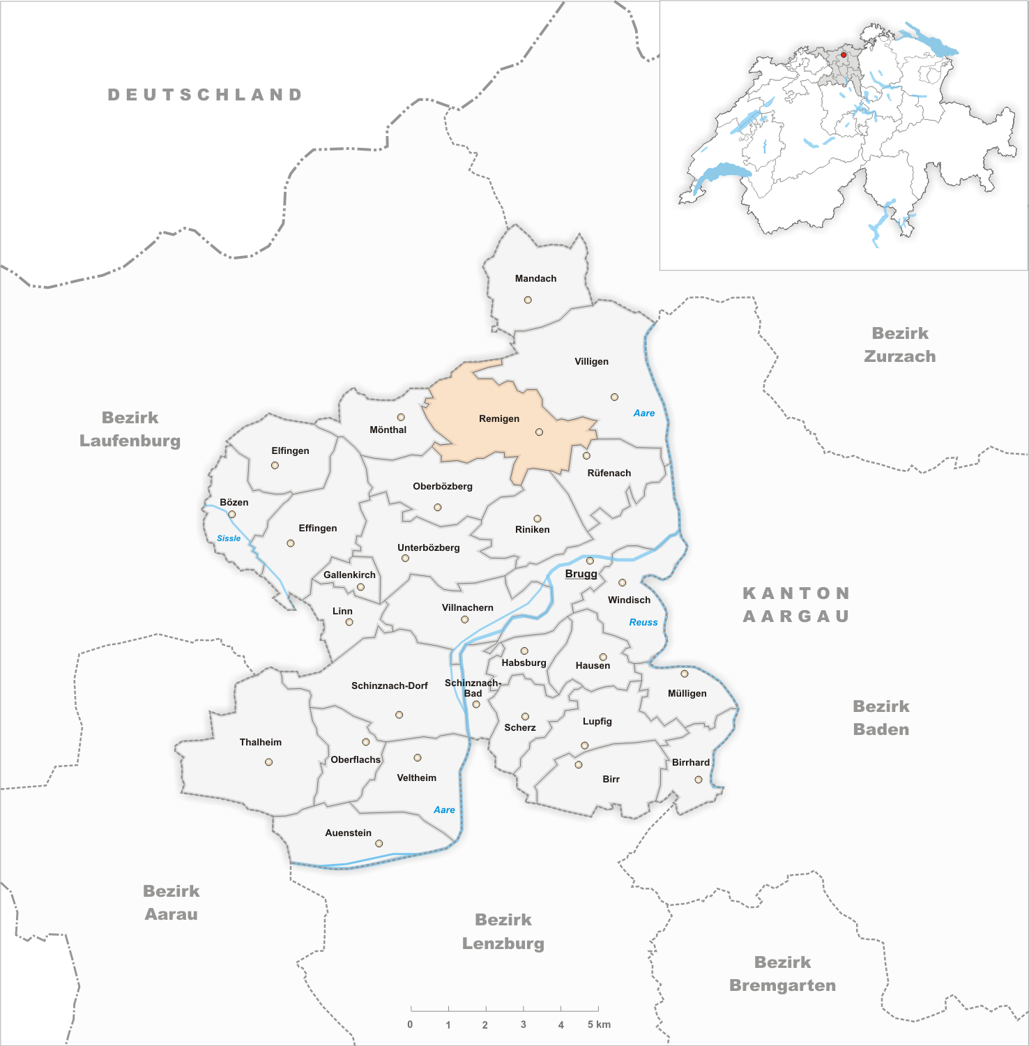 Municipality Remigen